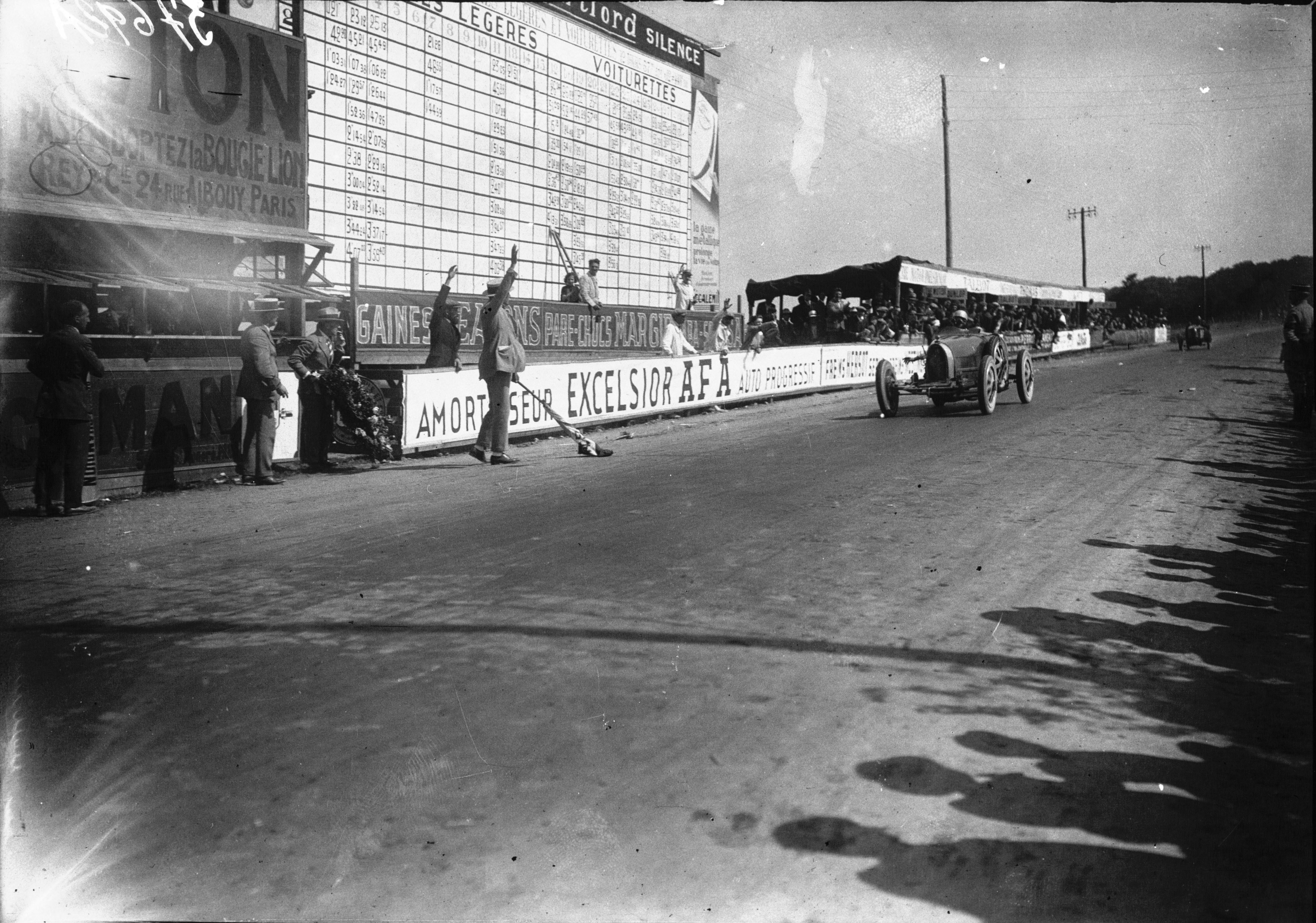 George Eyston at the 1926 Boulogne Grand Prix.